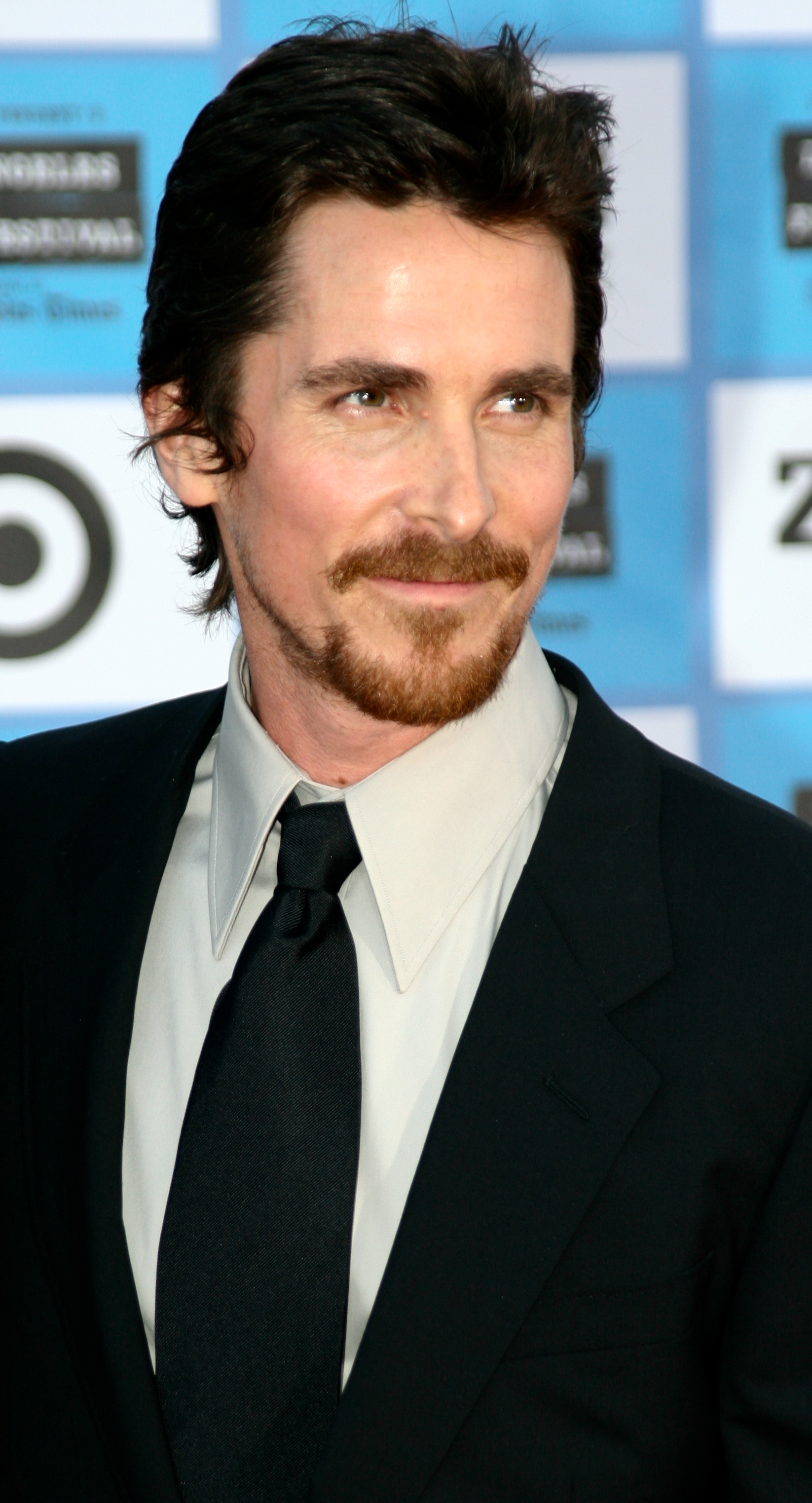 Christian Bale at the red carpet film premiere of Public Enemies at the Mann Village Westwood during the 2009 Los Angeles Film Festival.